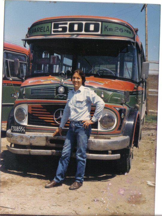 Bus (reg. C808554) with Mercedes-Benz LO chassis in Florencio Varela, Buenos Aires Province, Argentina. Colectivo, line 500, Treinta de Agosto S.A. operator.